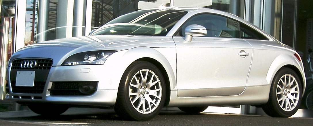 “Audi_TT Coupe 2.0 TFSI” Image:Audi_TT_Coupe_a.jpg Image:Audi_TT_Coupe_c.jpg Category:Audi TT 8J